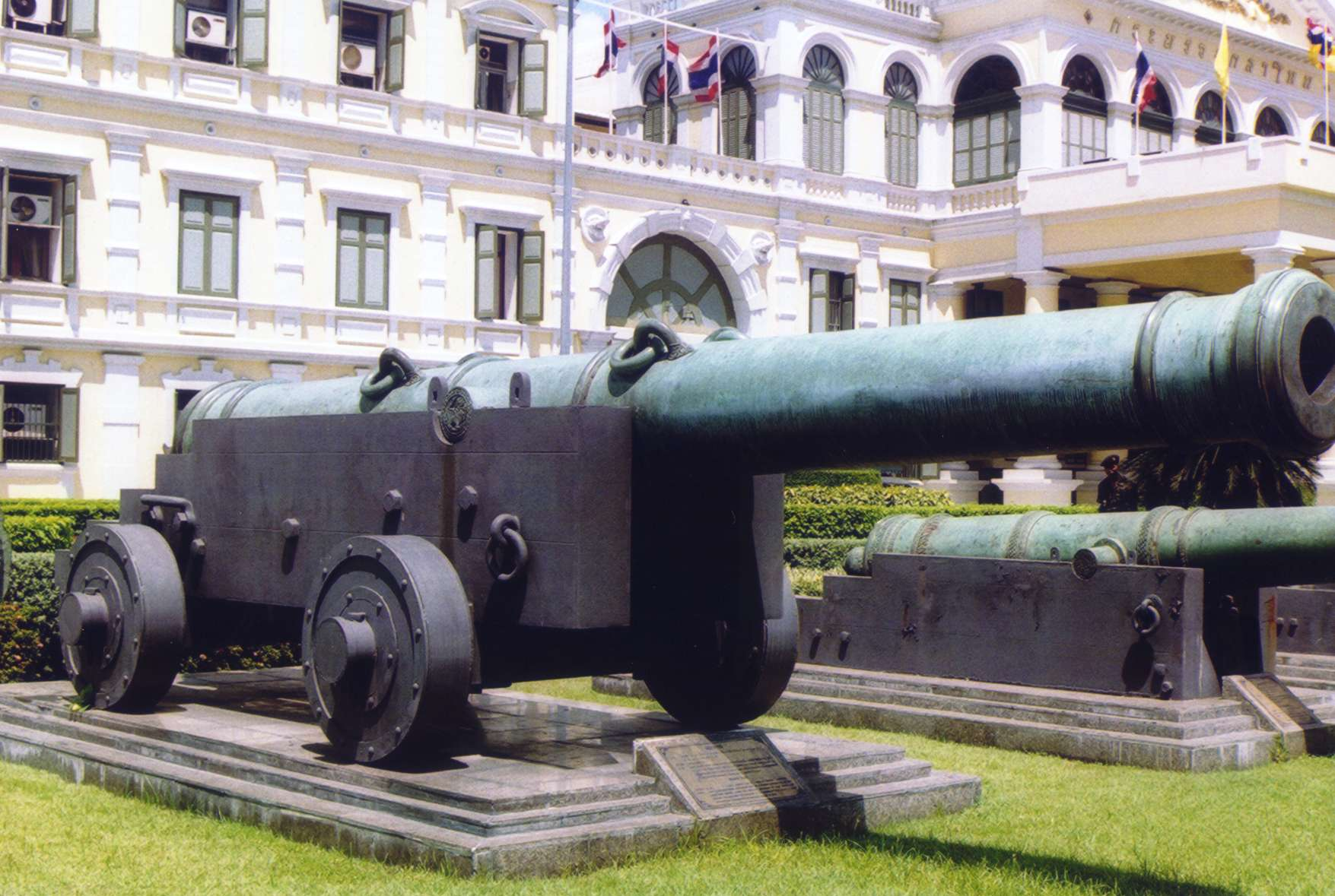 One of the cannons in front of the Ministry of Defence, Bangkok, Thailand. Photo taken before the re-alignment of the canons in 2004, so it points toward Wat Phra Kaew, not to the south like it does now. The canon depicted may be Phraya Tani (พญาตานี), or the cannon cast to be a replica of it. (can anyone identify it). Photo taken by User:Ahoerstemeier in 2003.